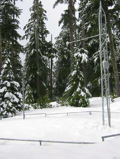 Snow telemetry (SNOTEL) station near Blazed Alder Creek in northwest Oregon, United States. At 3,650 feet (1,110 m), the station is the highest above sea level of the three SNOTELs in the Bull Run River watershed.